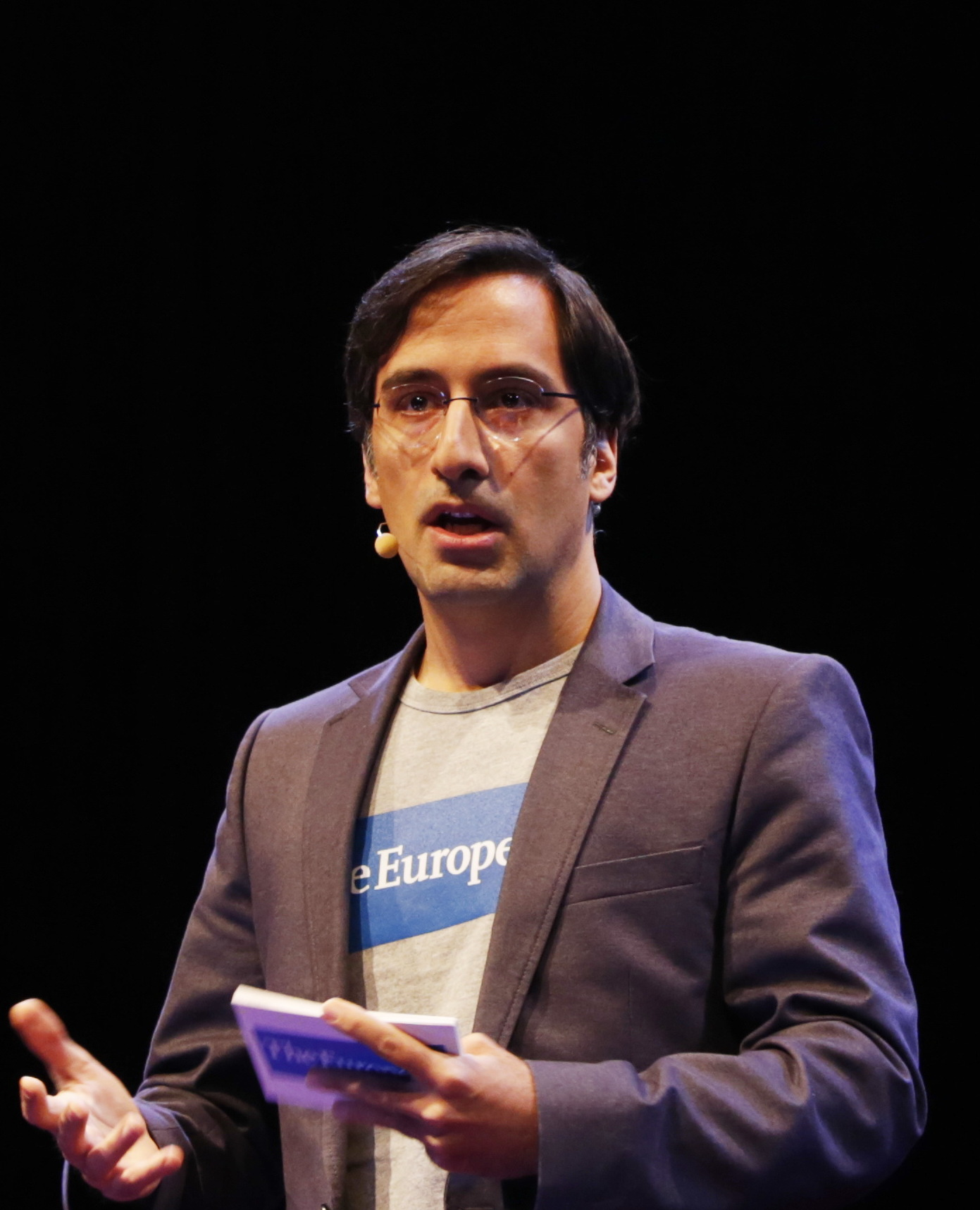 Alexander Görlach, founder and publisher of the German magazine The European on stage at Tedx Berlin, which took place at the House of World Cultures in Berlin, Germany.